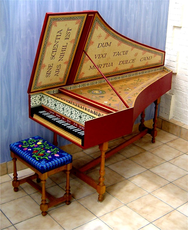 Harpsichord in the Flemish style with the inscription SINE SCIENTIA ARS NIHIL EST (Latin "without knowledge, skill is nothing") and DUM VIXI TACUI MORTUA DULCE CANO (Latin "while I lived, I was mute, dead, I sweetly sing").